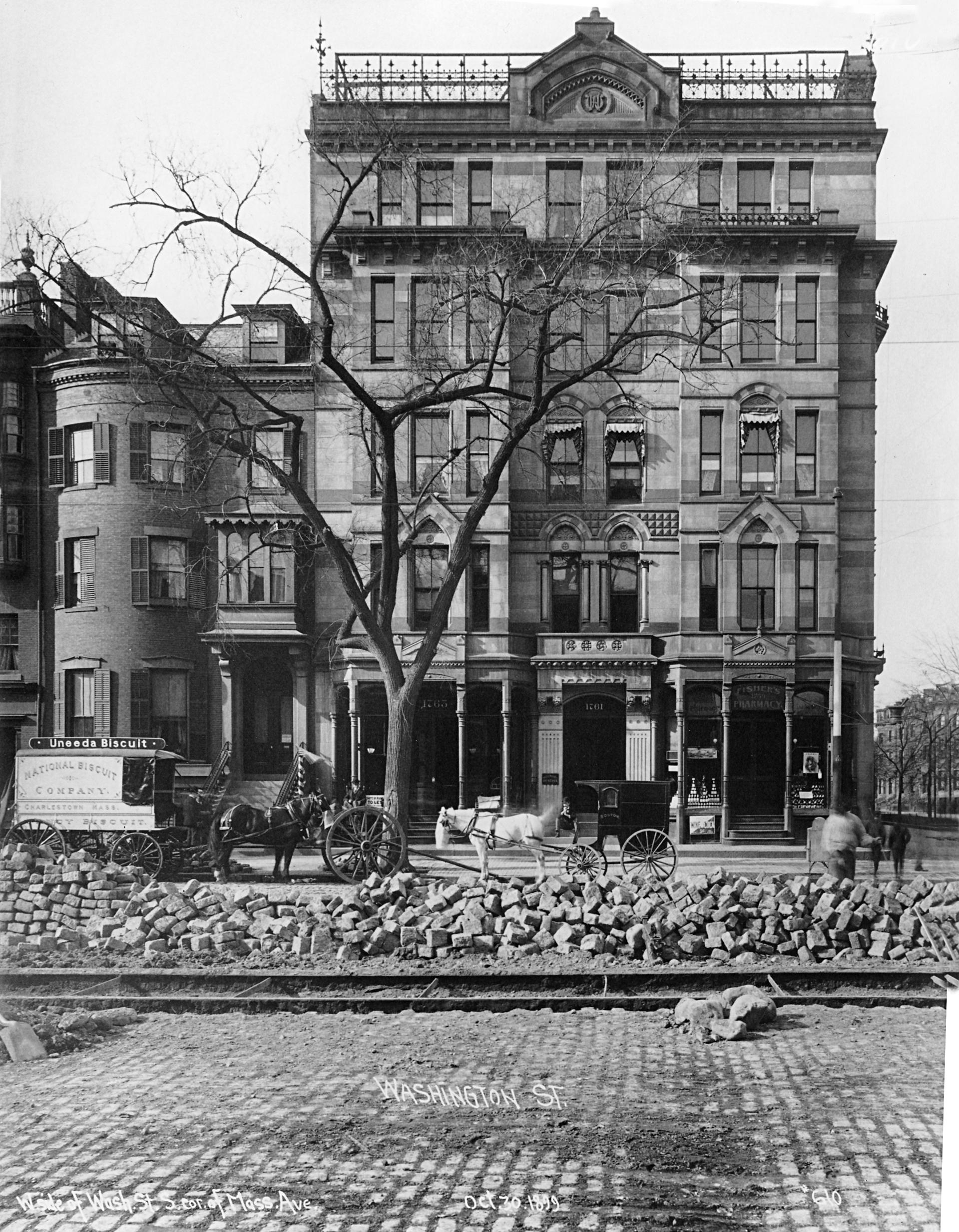 Image caption: "W side of Wash(ington) St. S. cor. of Mass. Ave. Oct. 30, 1899". Image also shows a "National Biscuit Company" (Quincy Biscuit) wagon advertising "Uneeda Biscuit", based out of Charlestown, MA